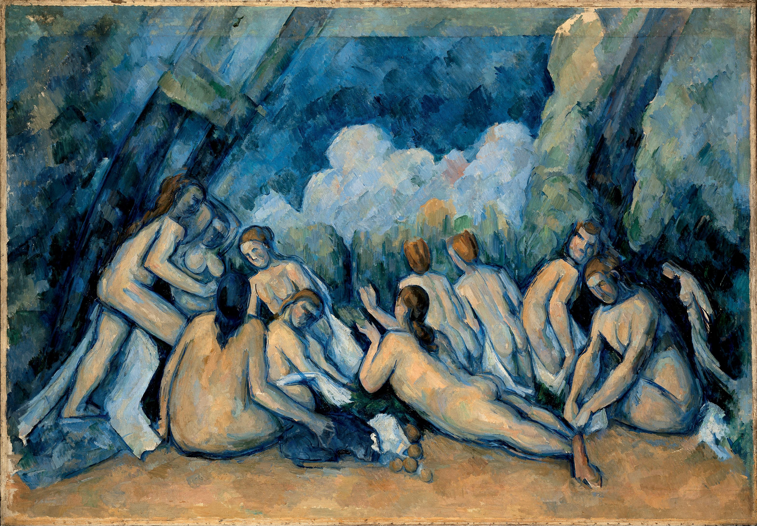 The Bathers